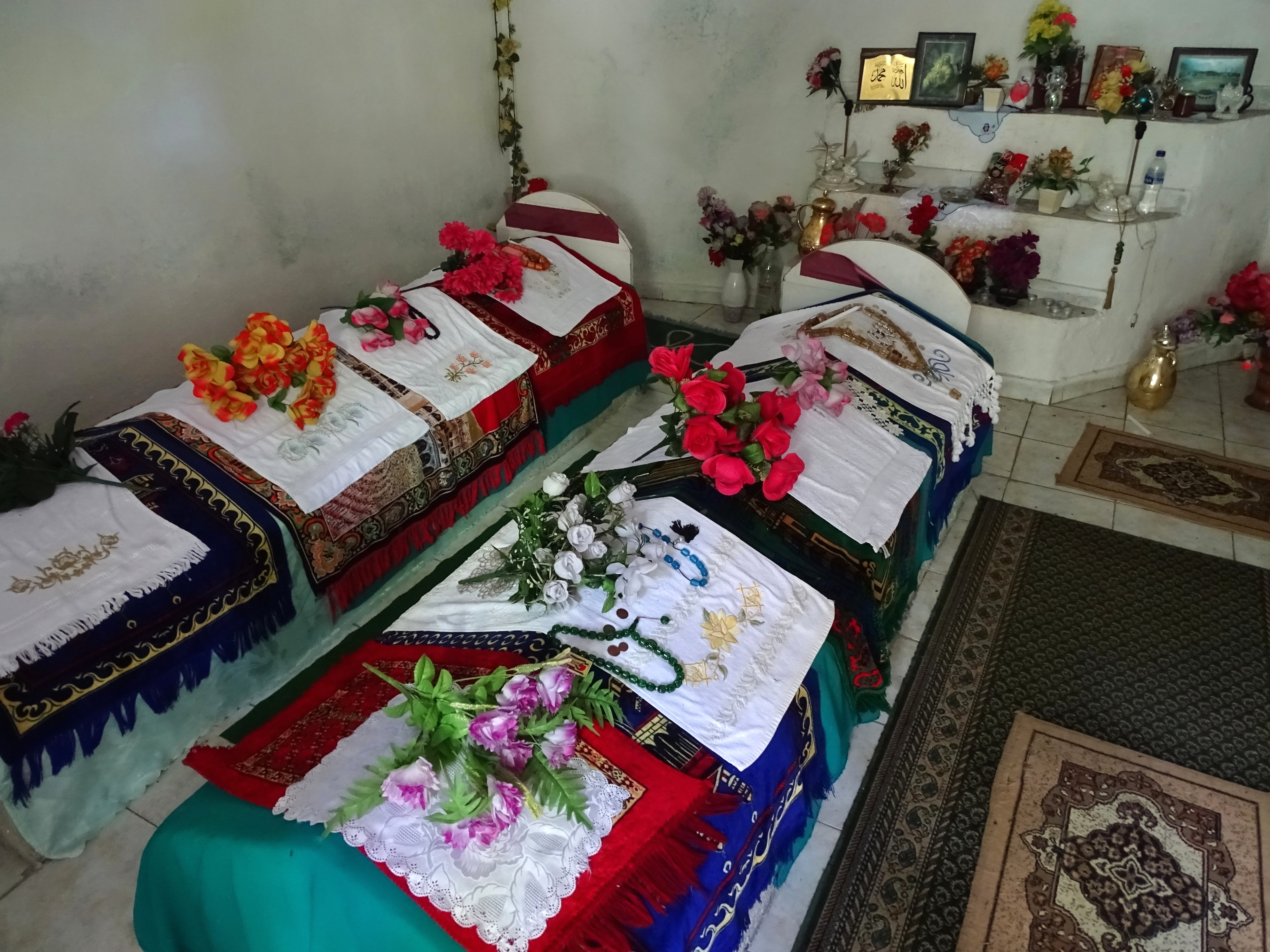 Photos by Adam Jones